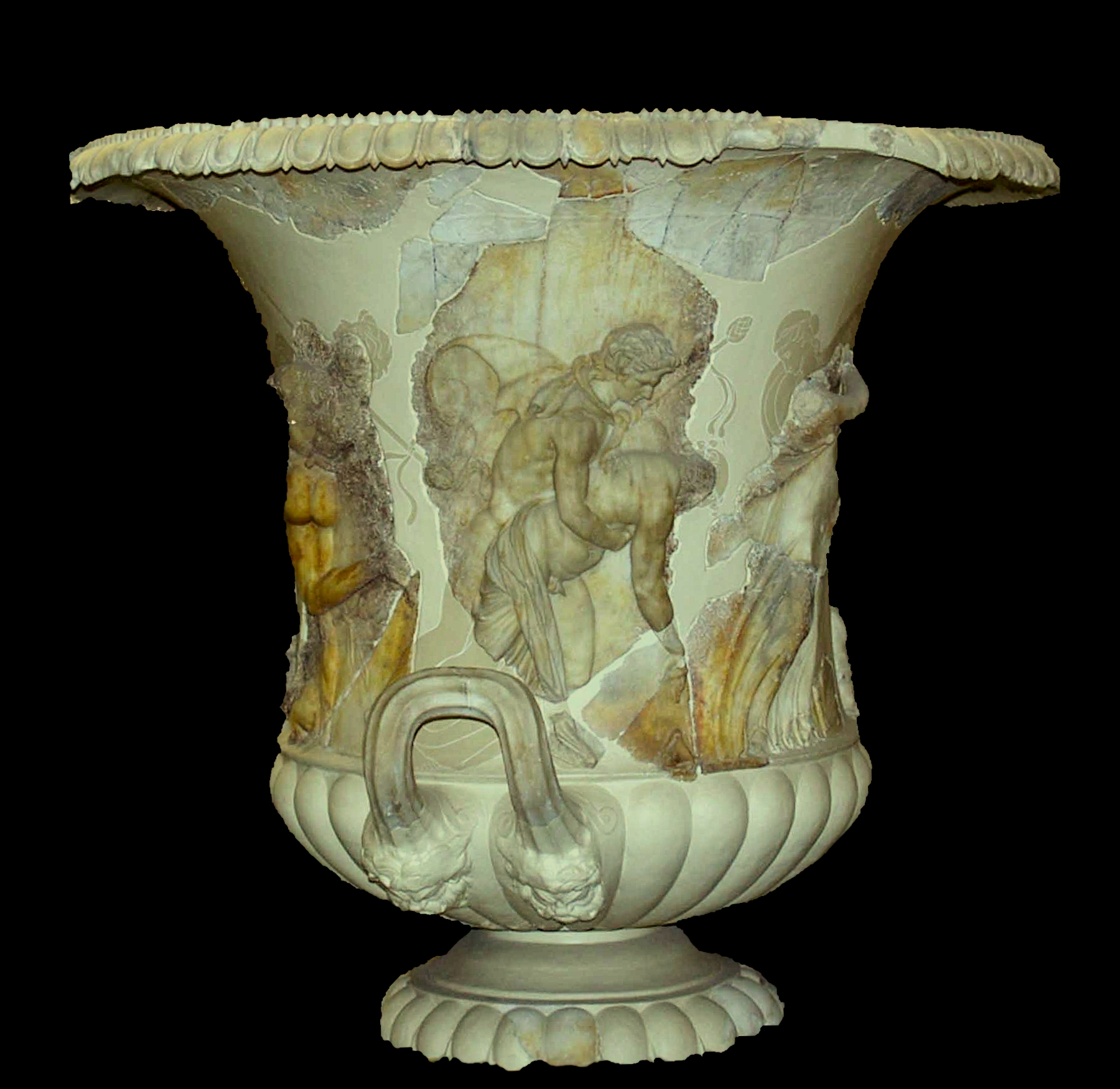 Bardo National Museum.